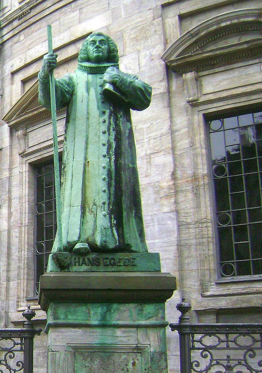 Denmark. Capital Region. CopenhagenMade by sculptor August Saabye (b.1823-d.1916)